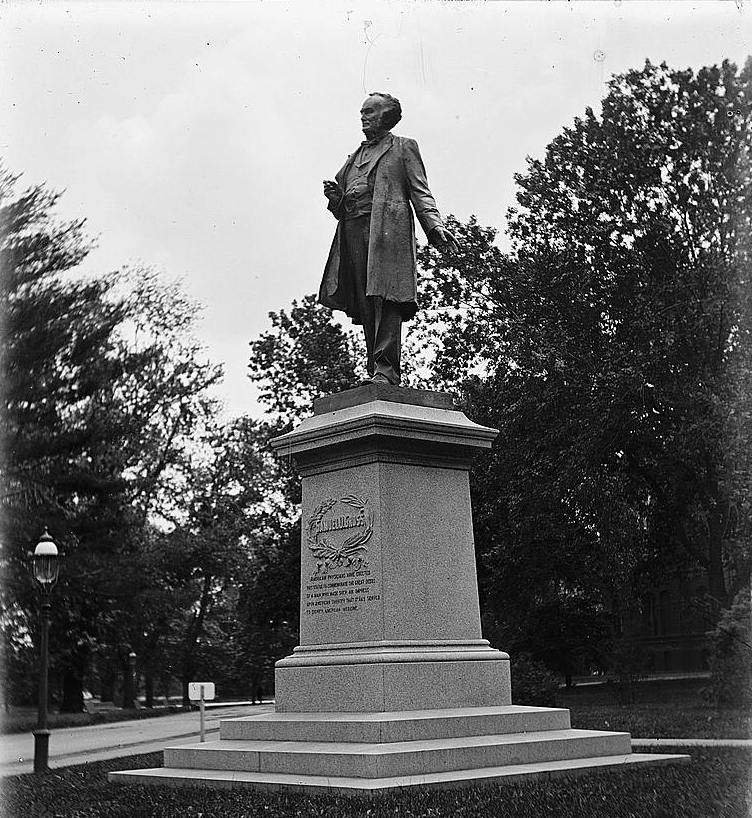 Statue of Samuel D. Gross, National Mall, Washington, DC (between 1918 and 1920), Alexander Stirling Calder, sculptor.